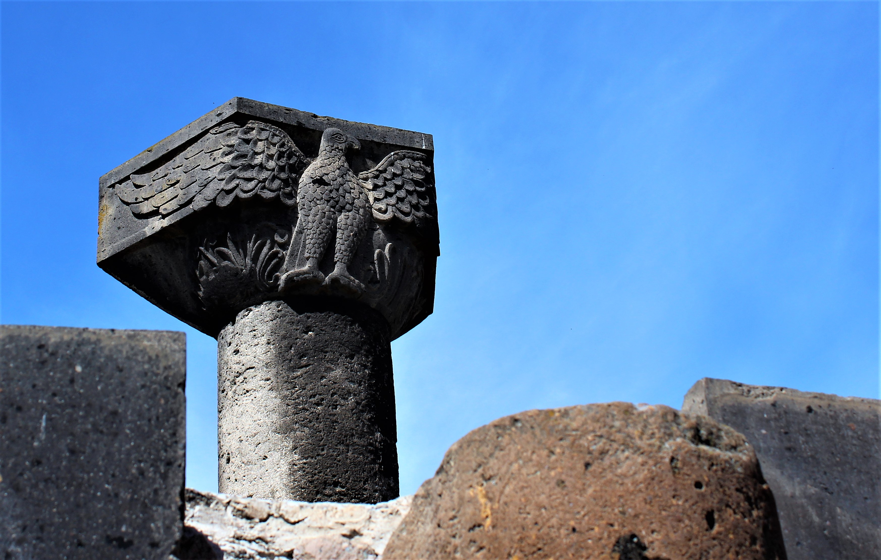 Capital with eagle in Zvartnots temple, Vagharshapat, Armenia Armavir region.